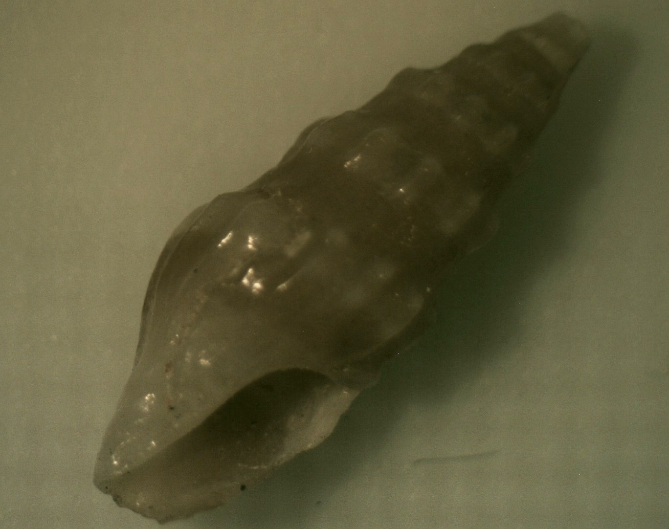 Clavus laetus (Hinds, 1843) (synonym: Splendrillia laeta (Hinds, 1843), a seasnail from the family Drilliidae; Philippines